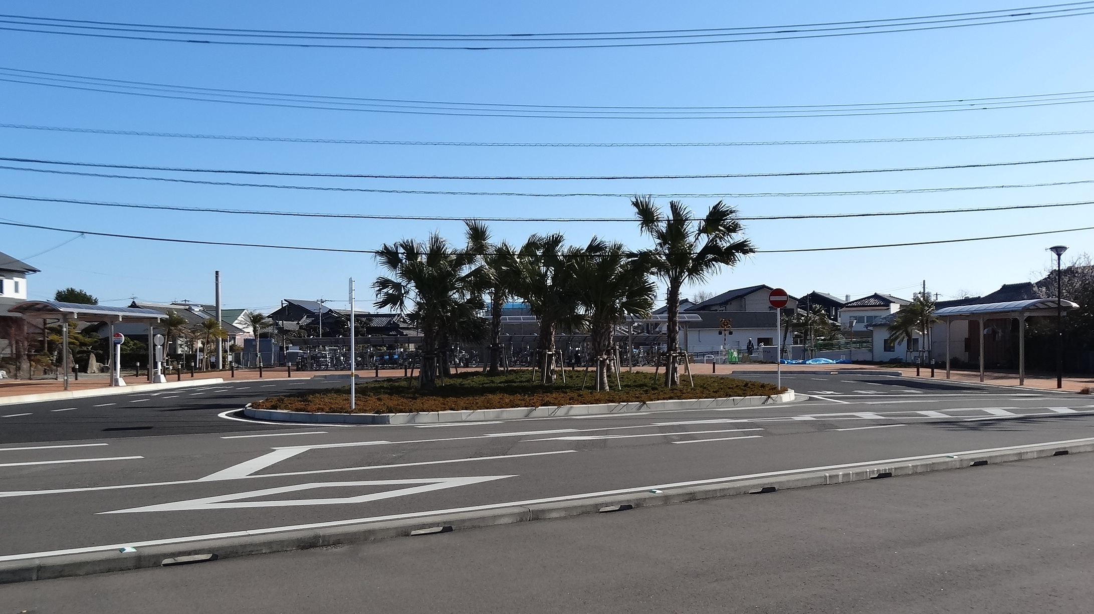 JR Nichinan Line Kibana Station West Gate (Miyazaki City, Japan)